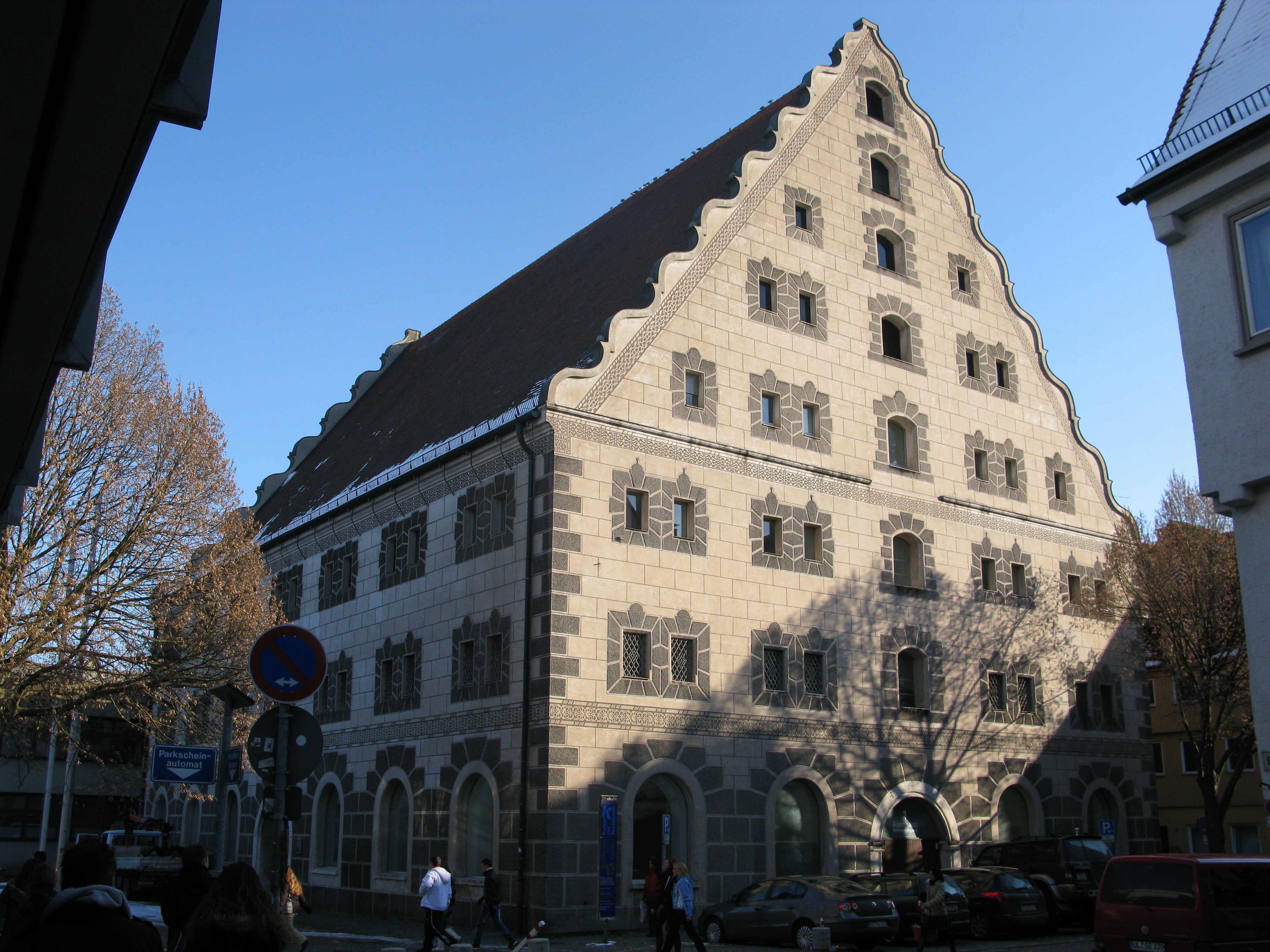 The Kornhaus at the Kornhausplatz in Ulm.